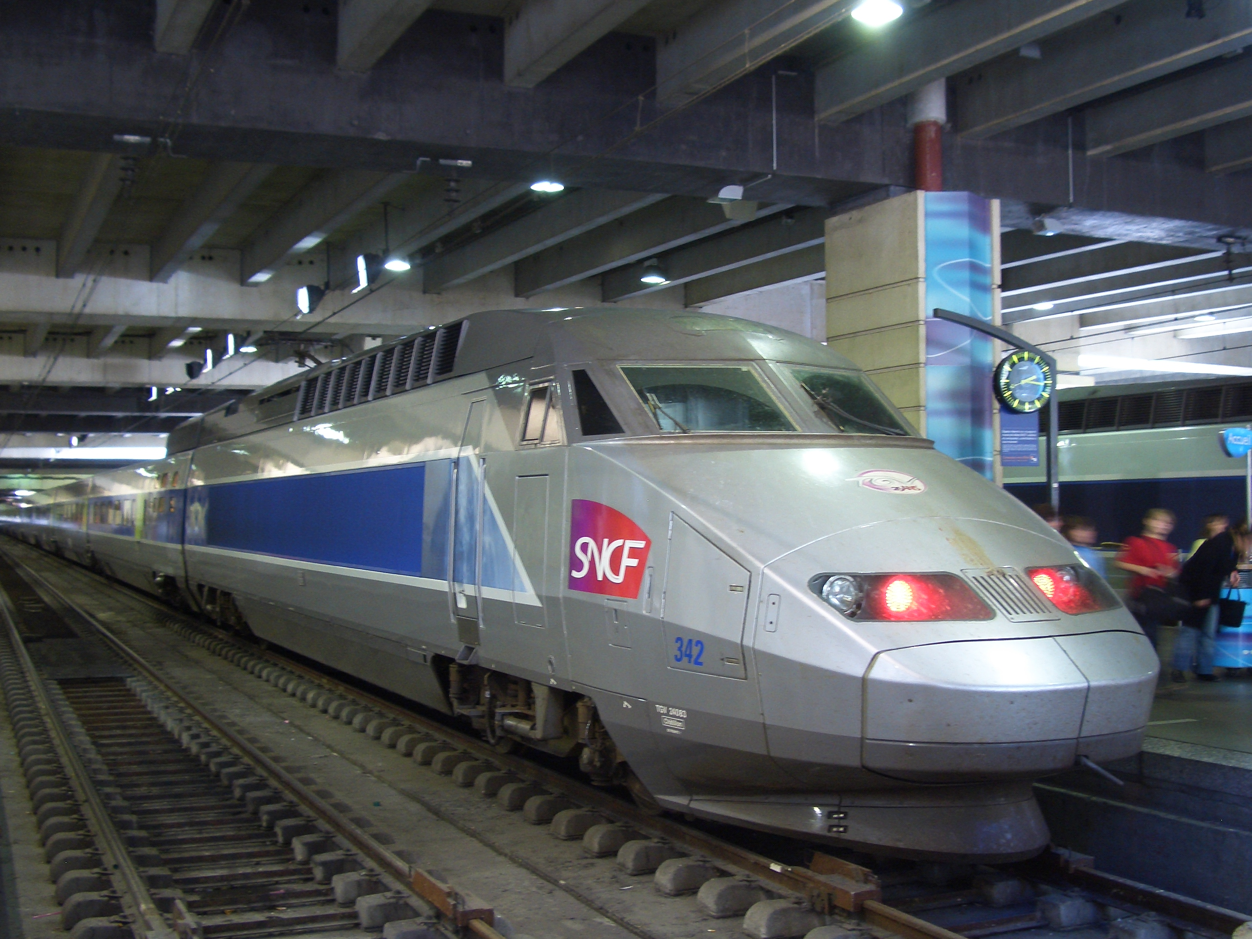 TGV Atlantique train at the Montparnasse train station, Paris.